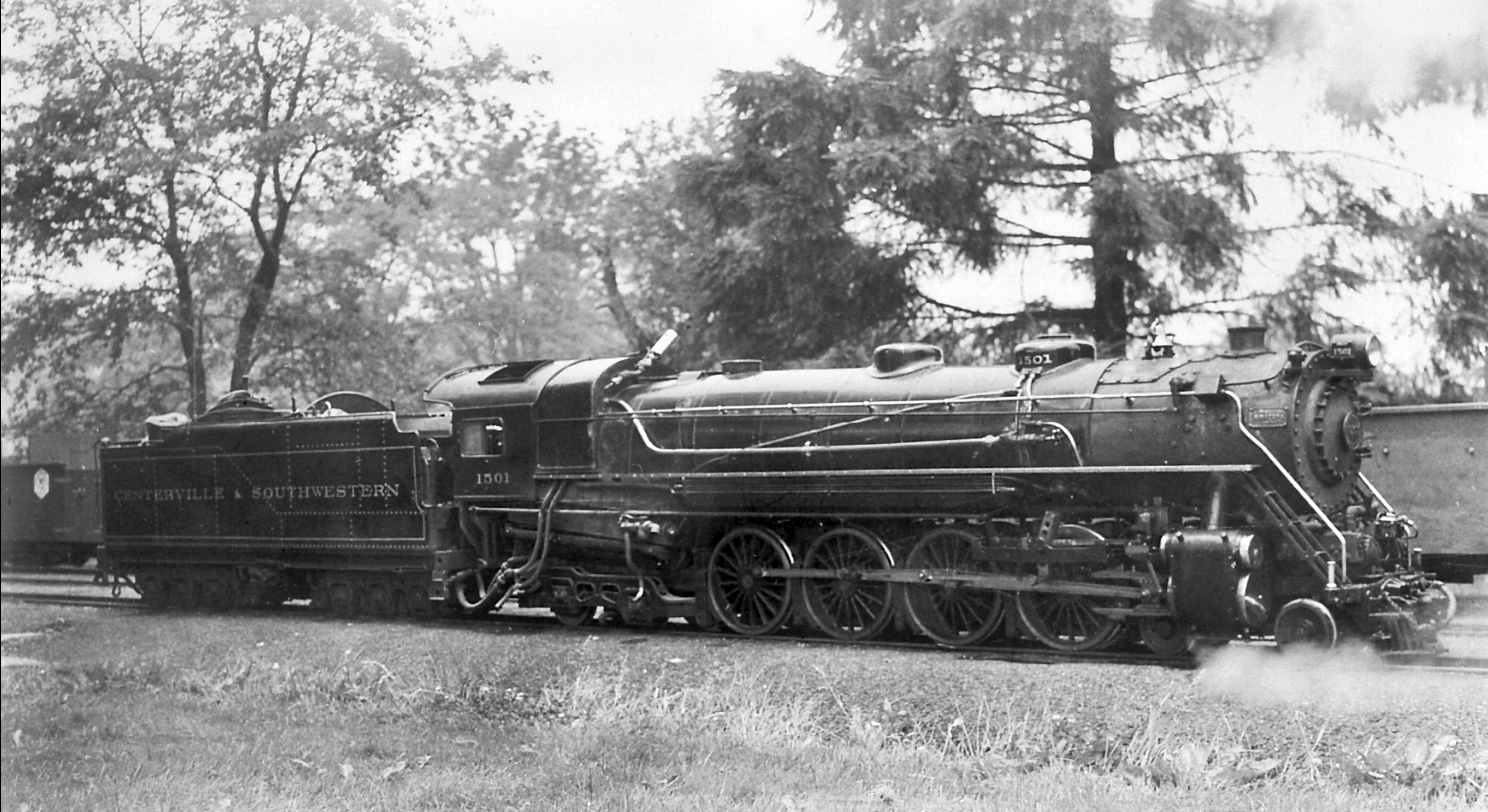 Wally From Columbia (NJ) (talk) 20:06, 21 December 2010 (UTC)